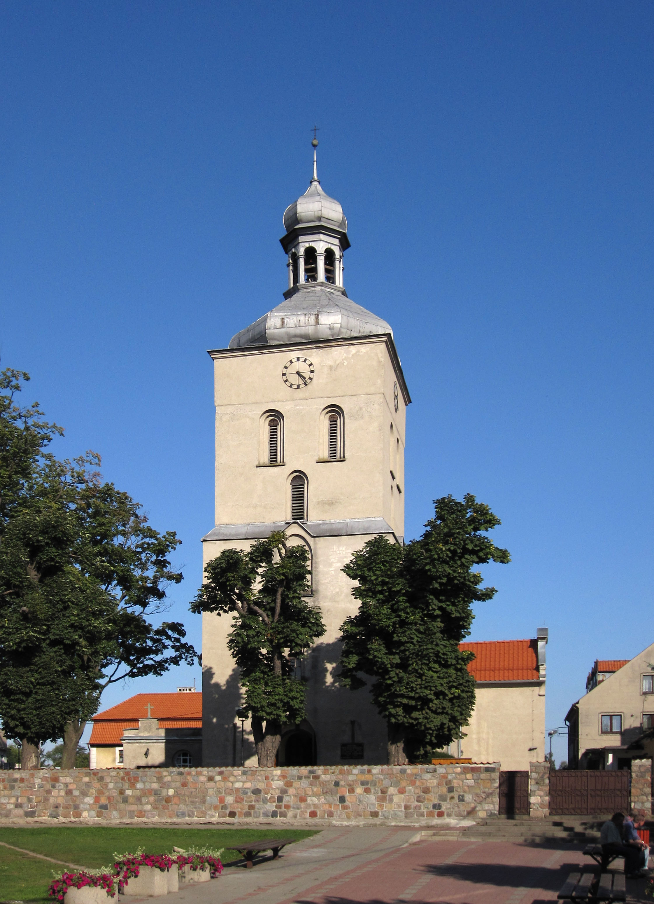 Adalbert of Prague church in Lidzbark